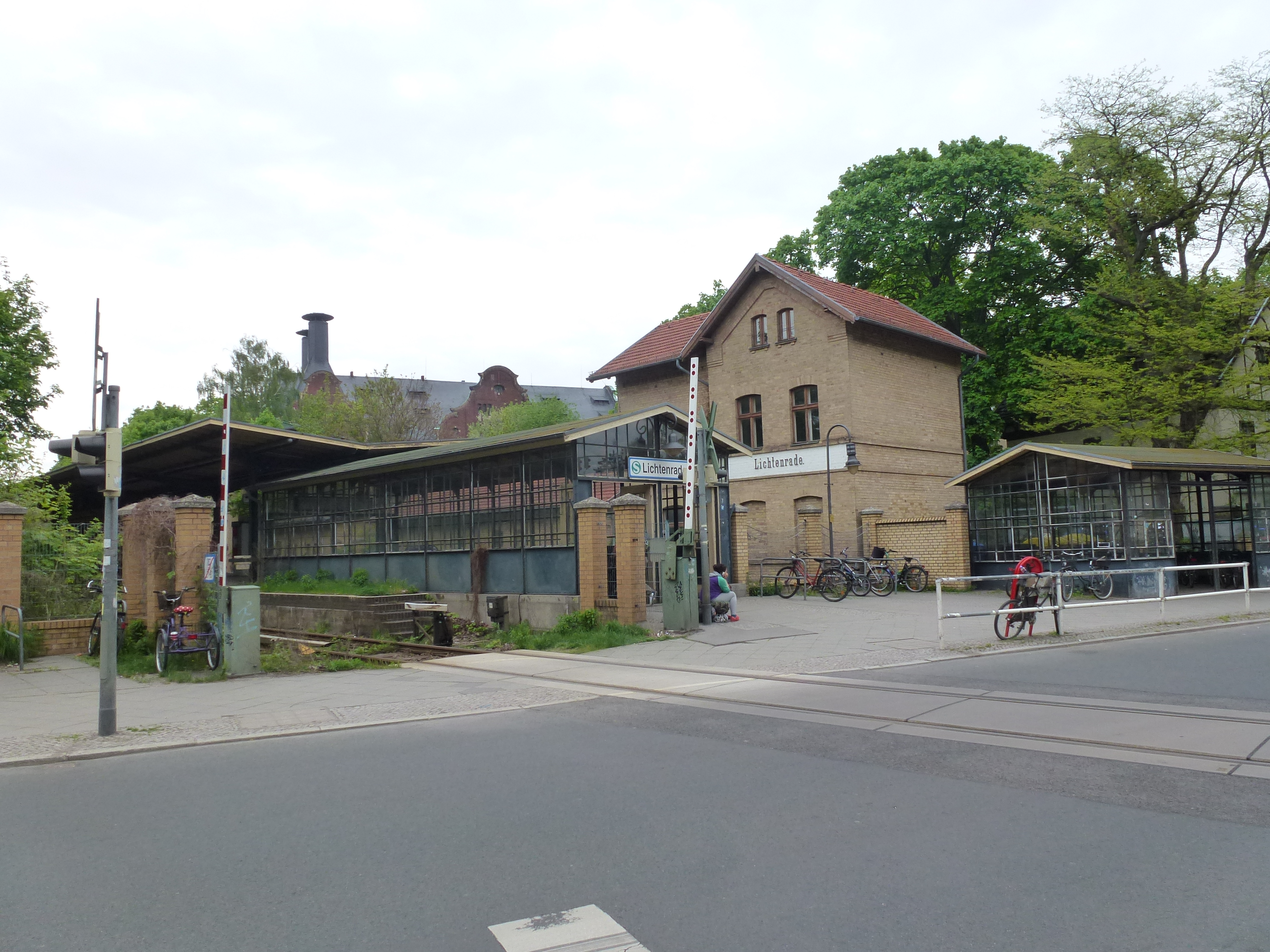 Berlin-Lichtenrade Prinzessinnenstraße Bahnhof Lichtenrade